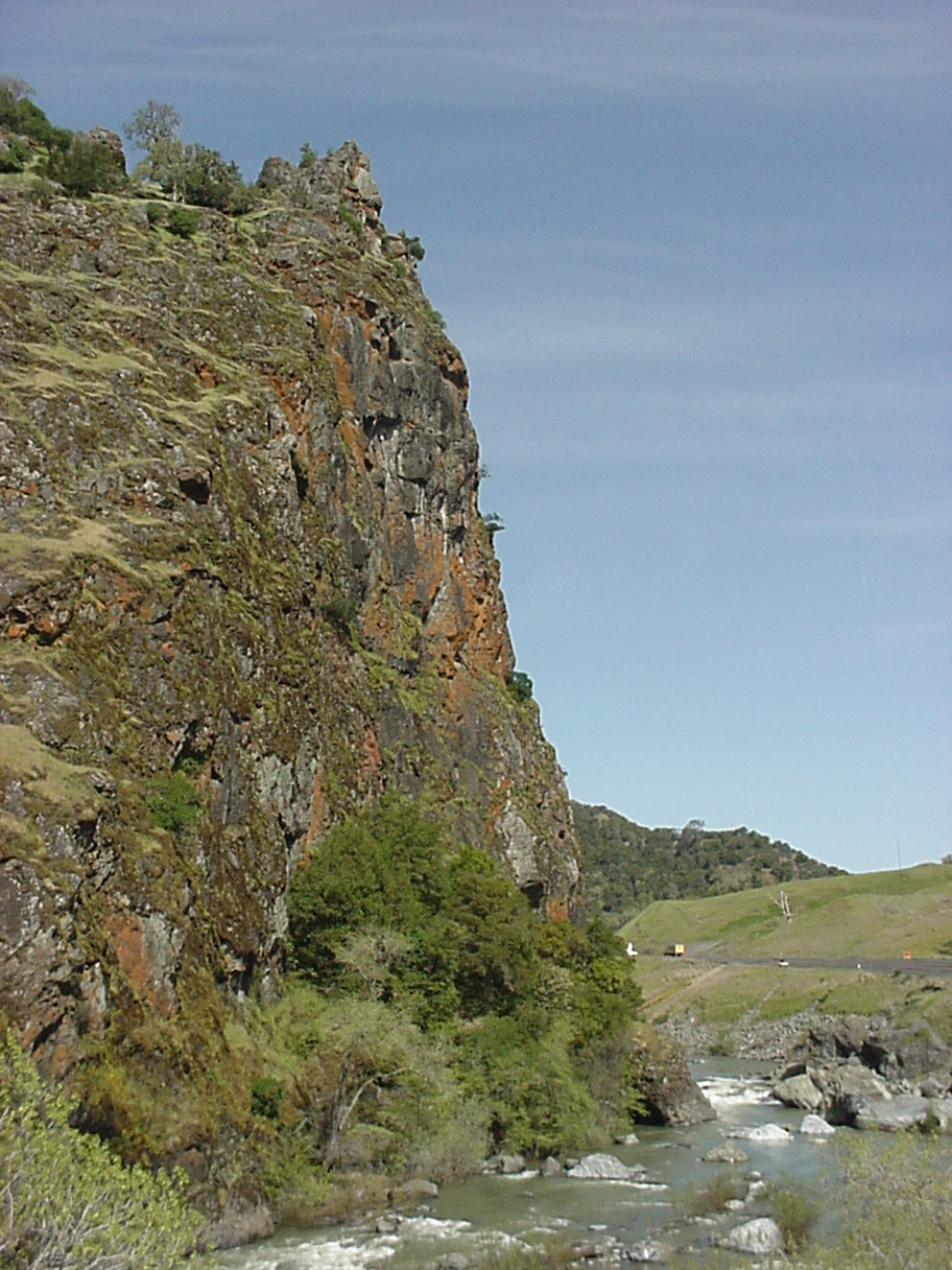 Squaw Rock and the Russian River viewed from United States highway 101 in Mendocino County, California.